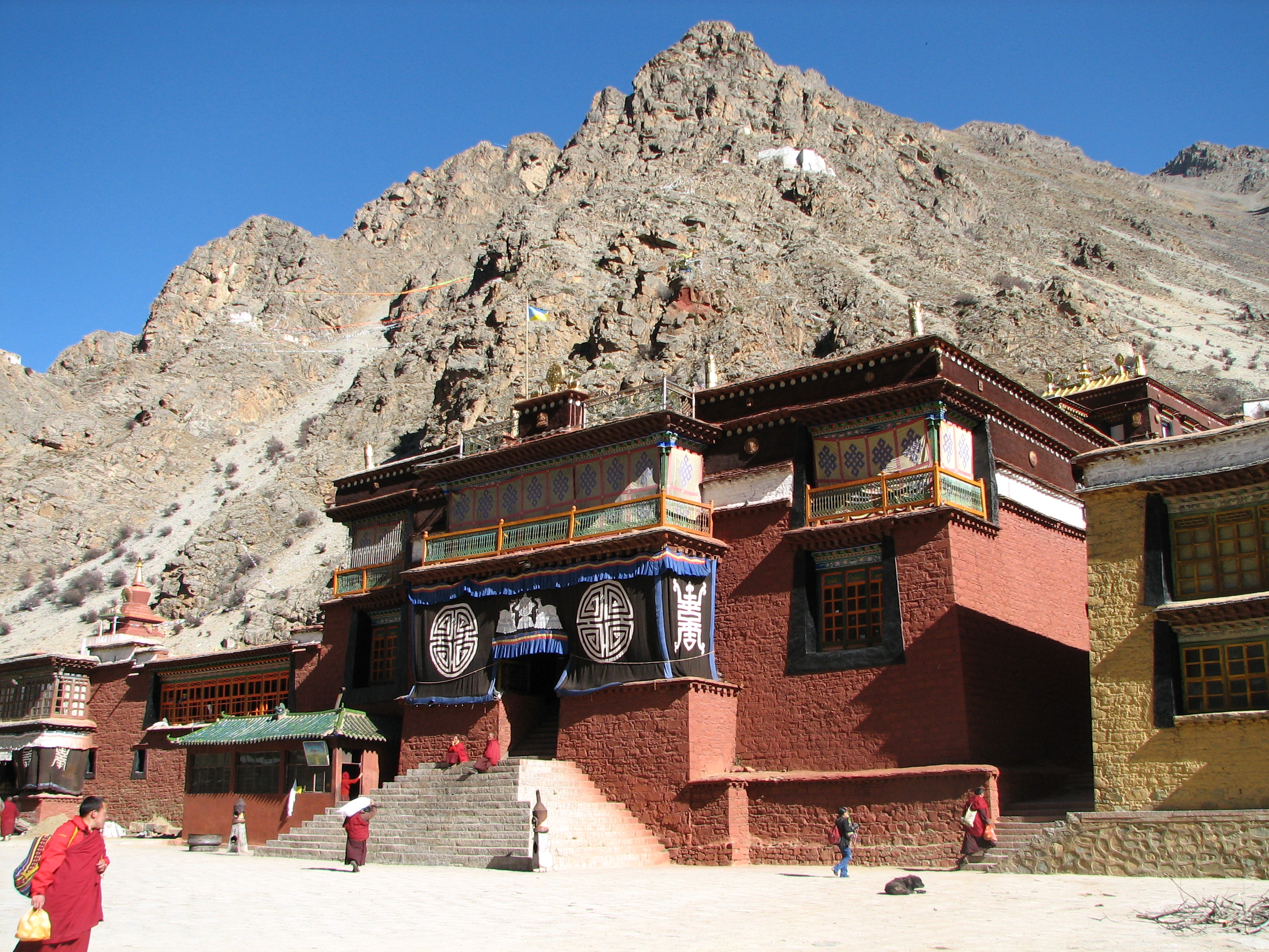 Tsurpu Monastery in Tohlung Dechen County, near Lhasa, Tibet